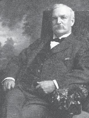 Amzi L. Barber, American multi-millionaire businessman known as the "Asphalt King", and an early pioneer of the automobile industry (Locomobile)